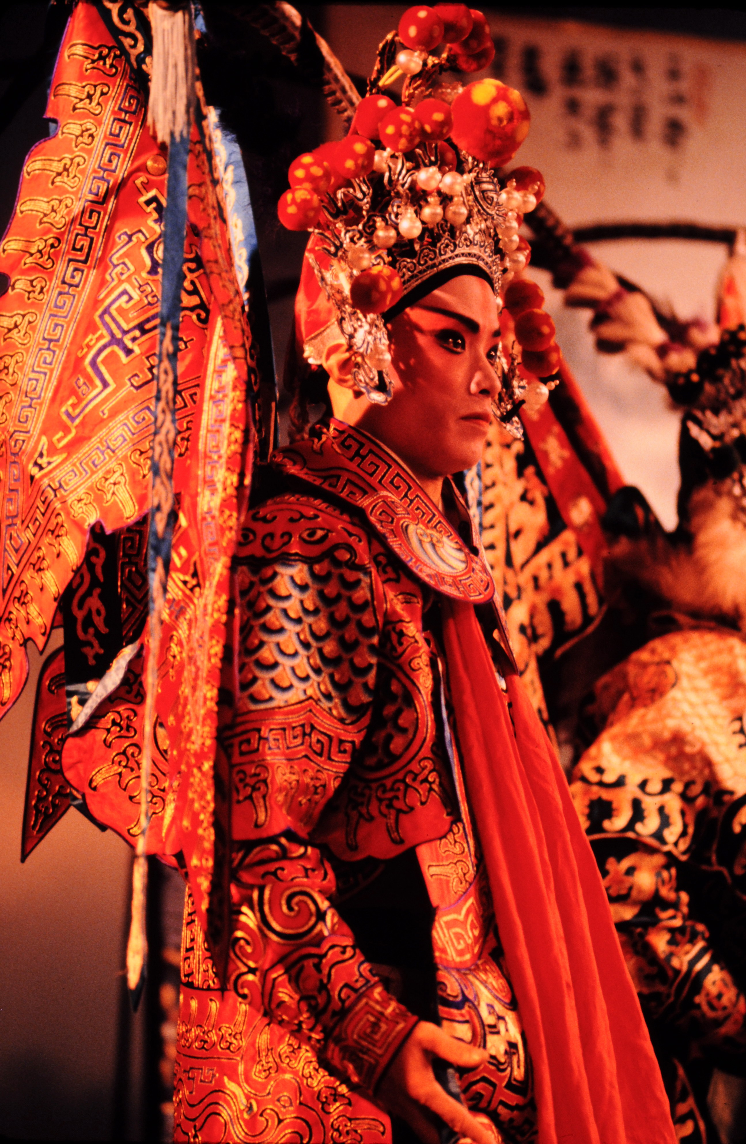 Actor during a Peking opera performance